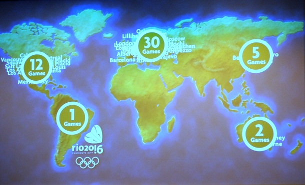 Also unveiled at Rio’s first press conference was “a new map of the world” showing Rio de Janeiro as an Olympic city, the only one in South America.